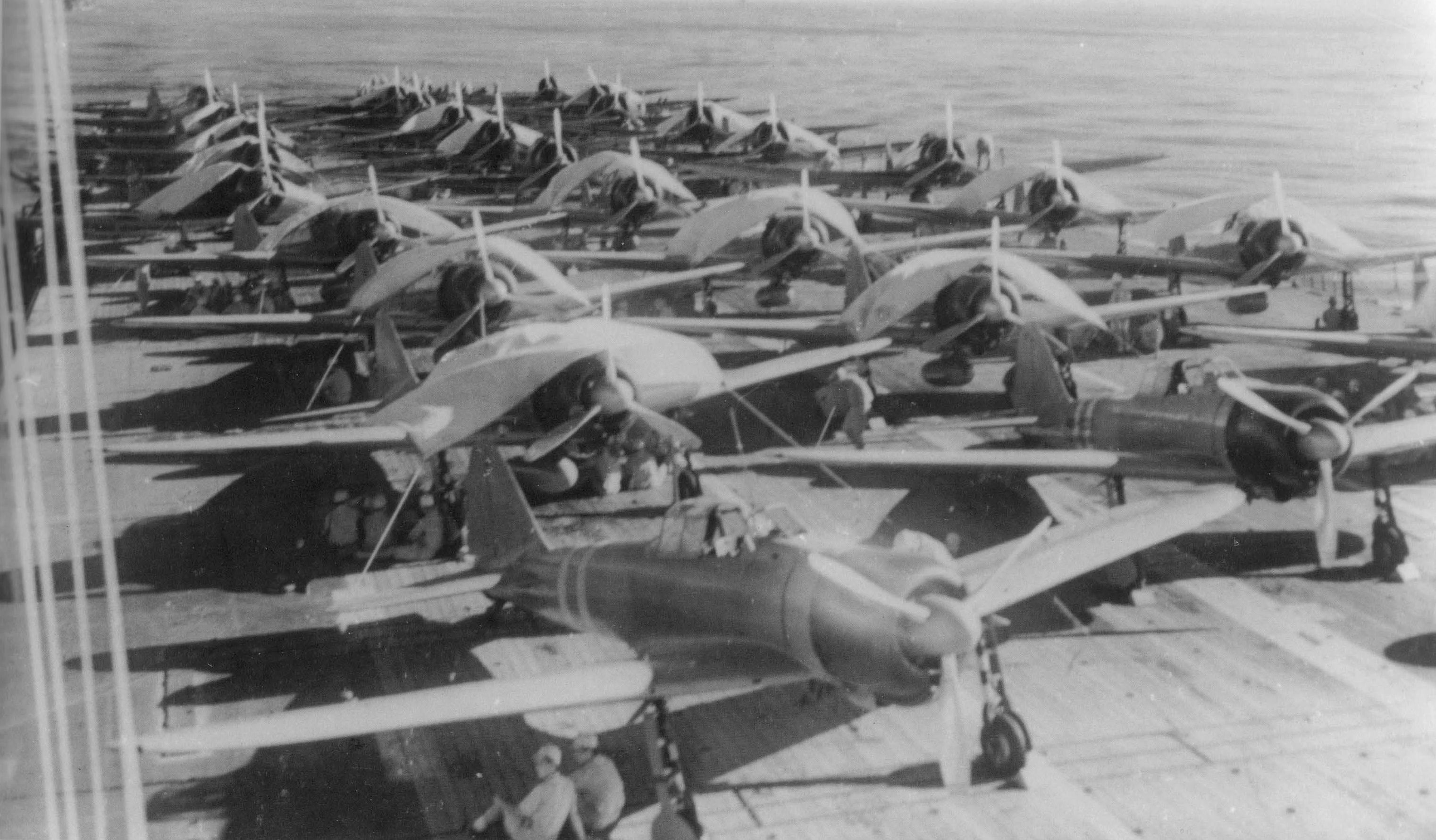 Aircraft are prepared for a morning sortie on the Imperial Japanese Navy aircraft carrier Zuikaku, east of the Solomon Islands, on May 5, 1942. On May 7 and 8 the carrier was involved in exchanges of airstrikes with United States Navy carriers during the Battle of the Coral Sea.